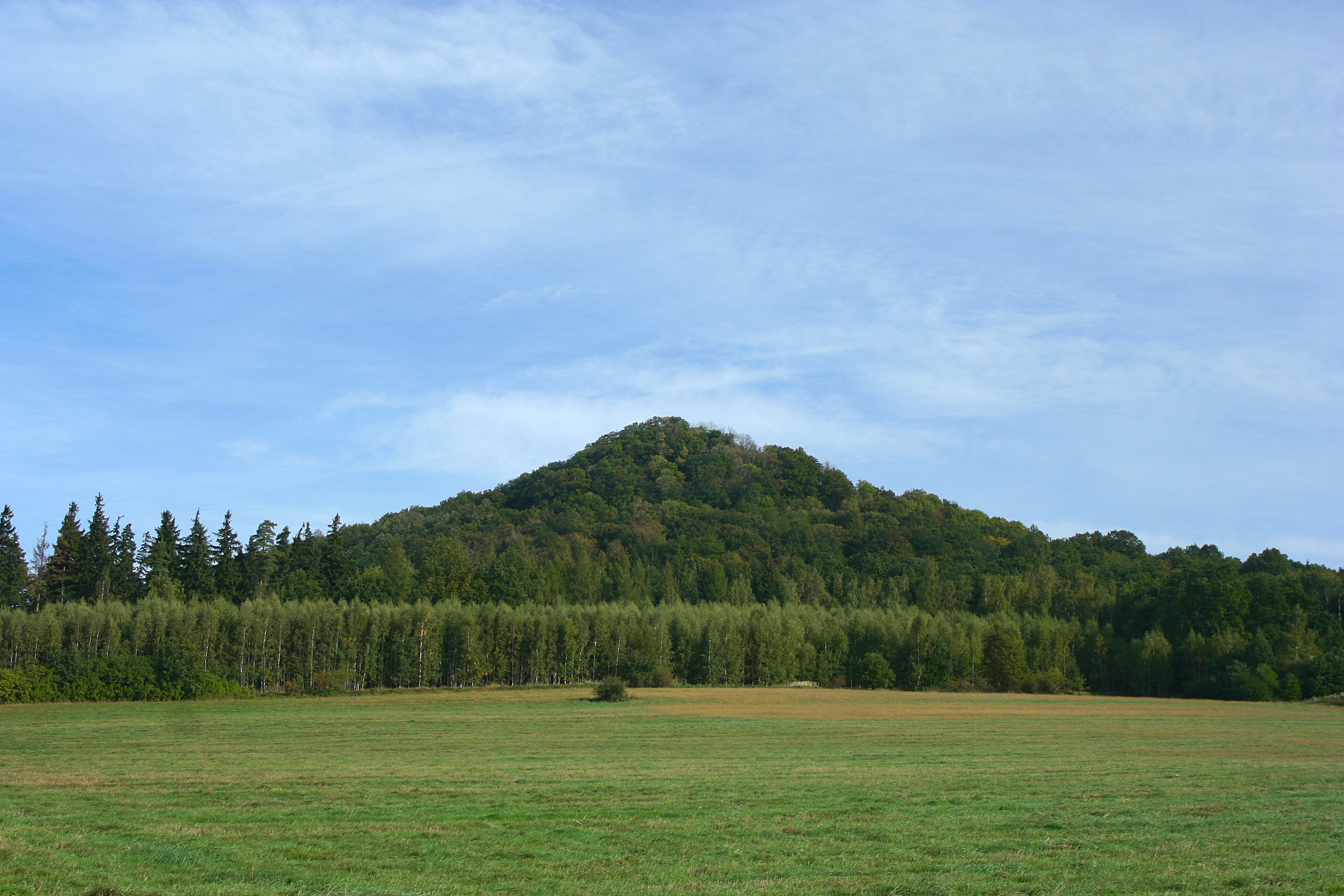 Extinct volcano Ostrzyca (501 m) near Wleń, Lower Silesia, Poland.